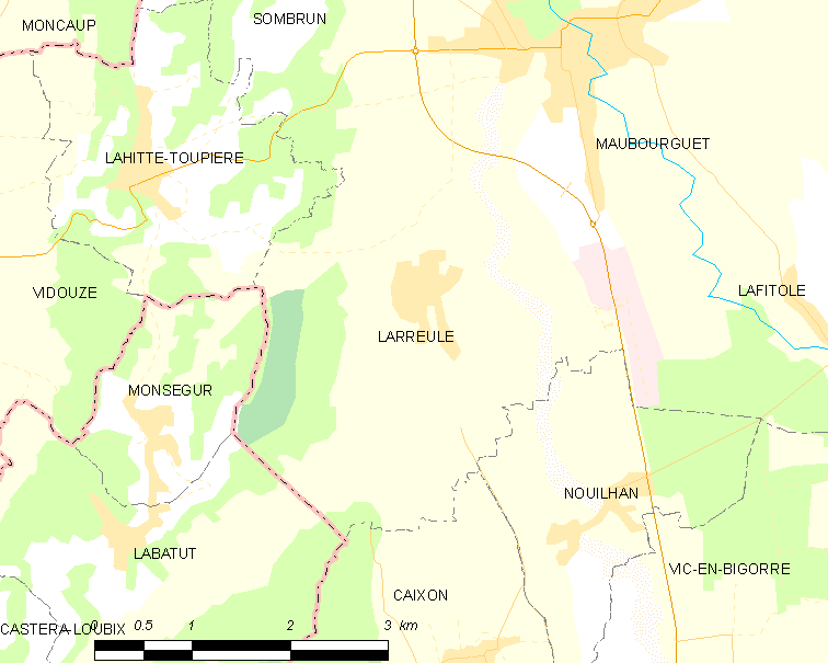 Map of French municipality